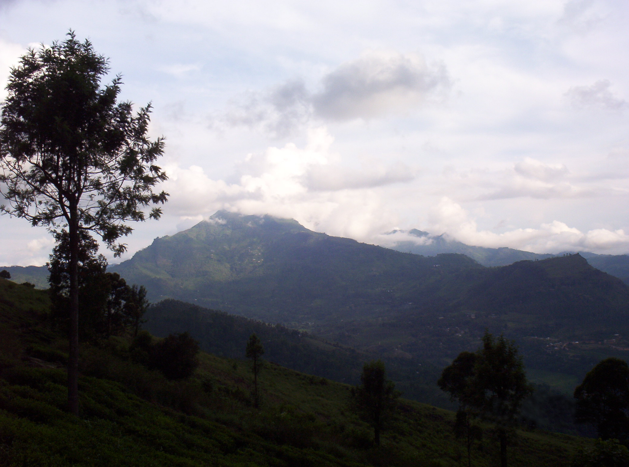 Namunukula